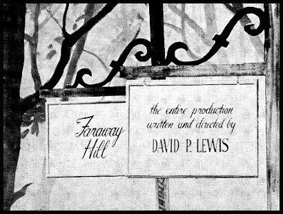 Title credits for Faraway Hill, the first soap opera on Television.